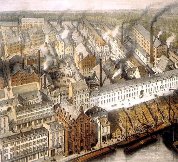 View of Bassin and Boschstraat in Maastricht, the Netherlands, ca 1865, with glass and pottery factories and other buildings belonging to Petrus Regout. Drawing from a celebratory family album of Petrus Regout, published in 1865.